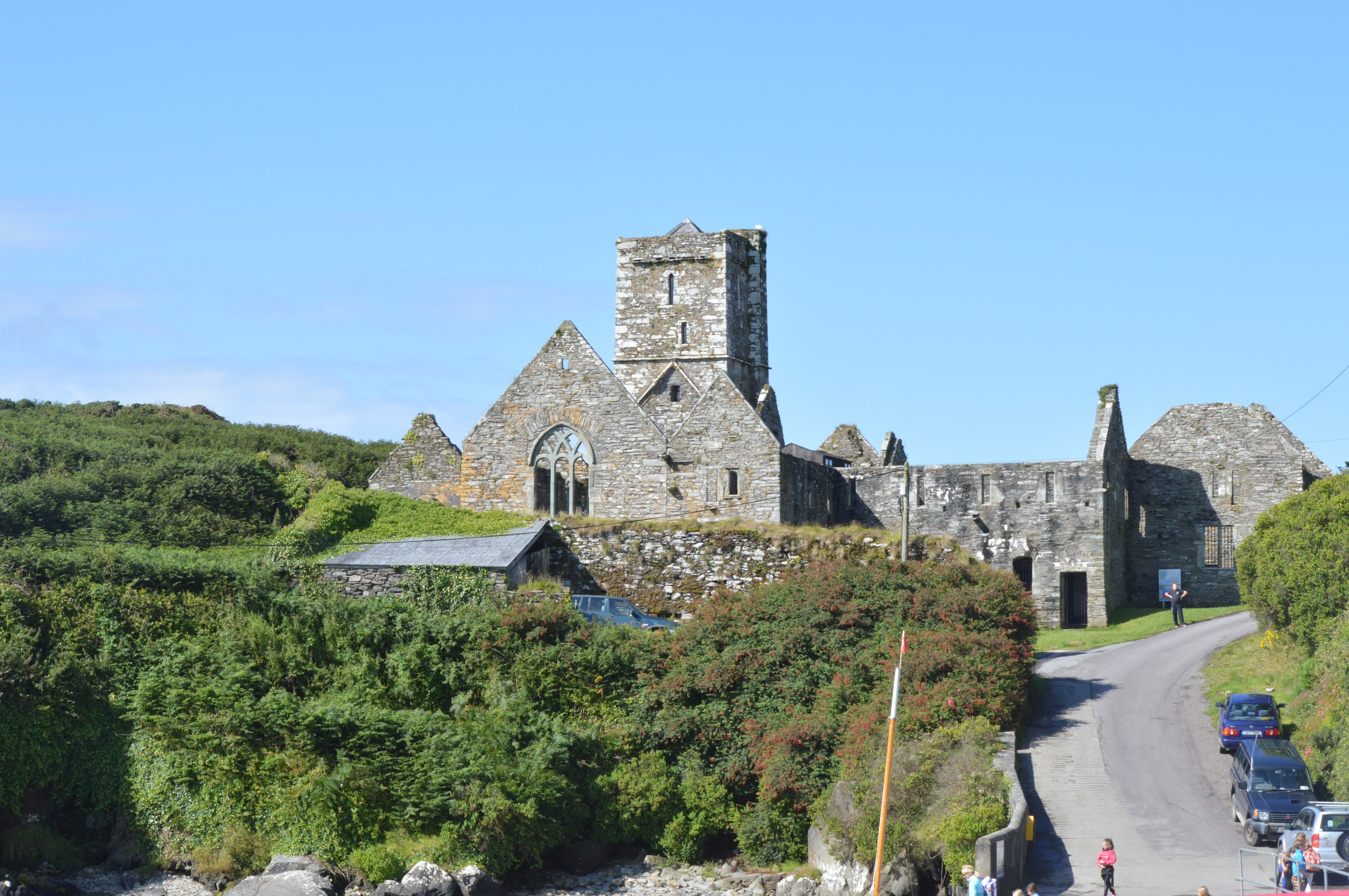 County Cork, Sherkin Abbey. Wikidata has entry Q30200590 with data related to this item.